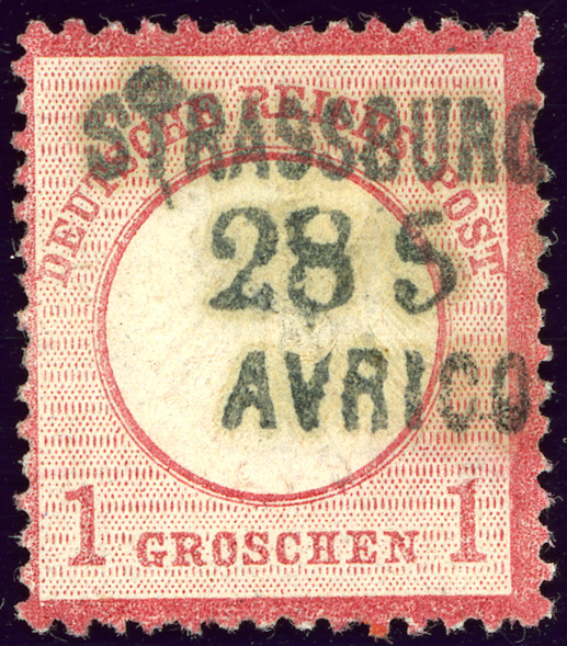 Stamp of Germany, issue 1872, railroad cancelled on line STRASSBURG-AVRICOURT (Alsace). Michel N°4 (small shield).